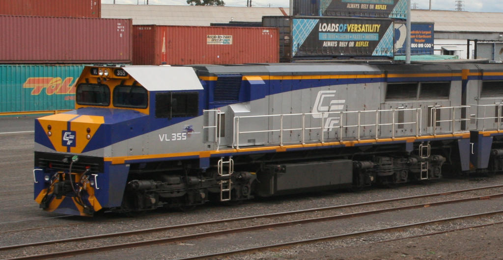 Chicago Freight Car Leasing Australia VL class diesel locomotive VL355 at North Dynon, Victoria, Australia.